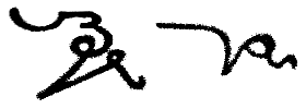 New, cleaner version of File:StenographieDuployé.jpg. Image is of the words "stenographie Duployé" in Duployan stenography.